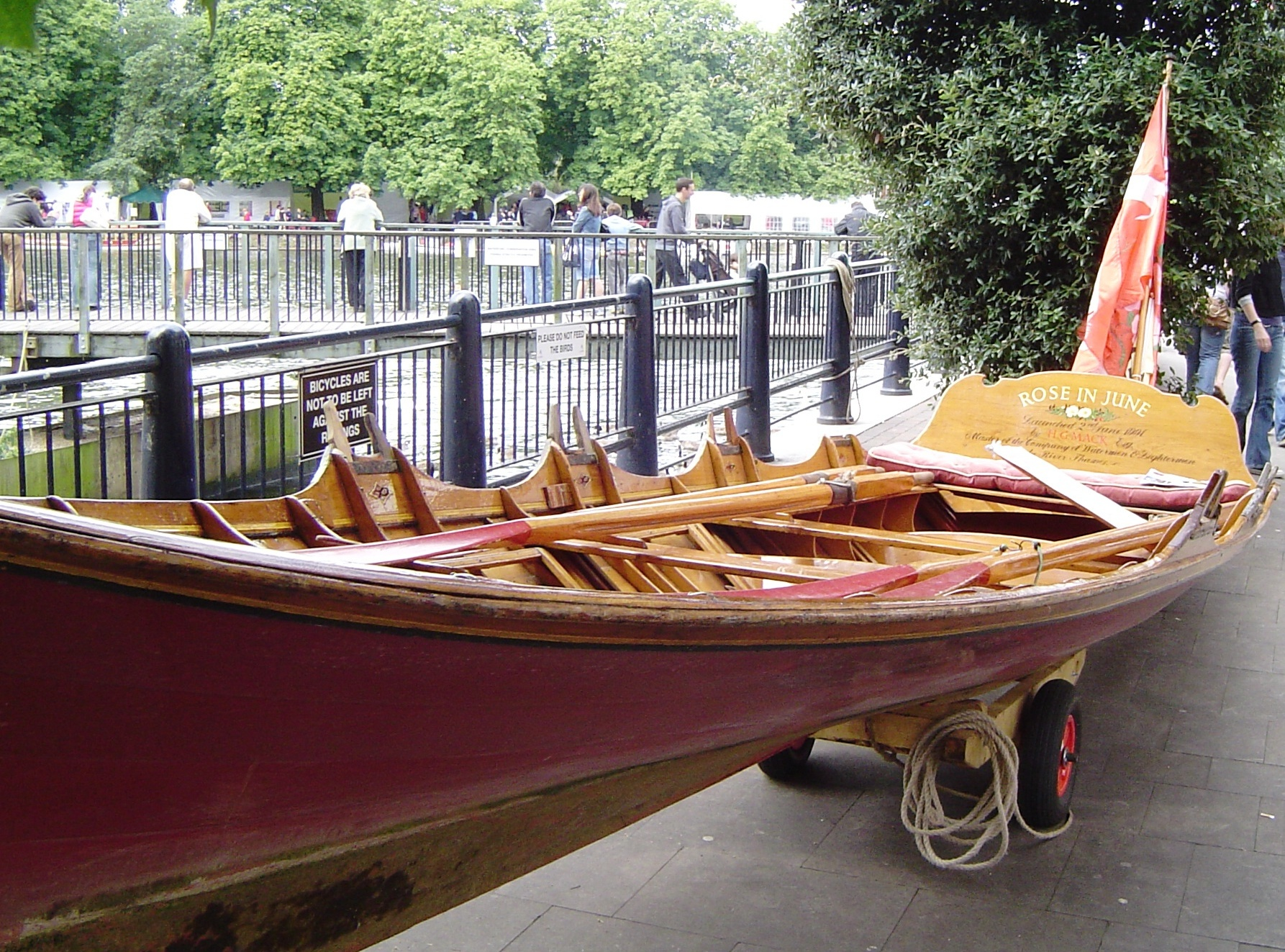 Wherry built to 18th century design on the Hogsmill at Kingston